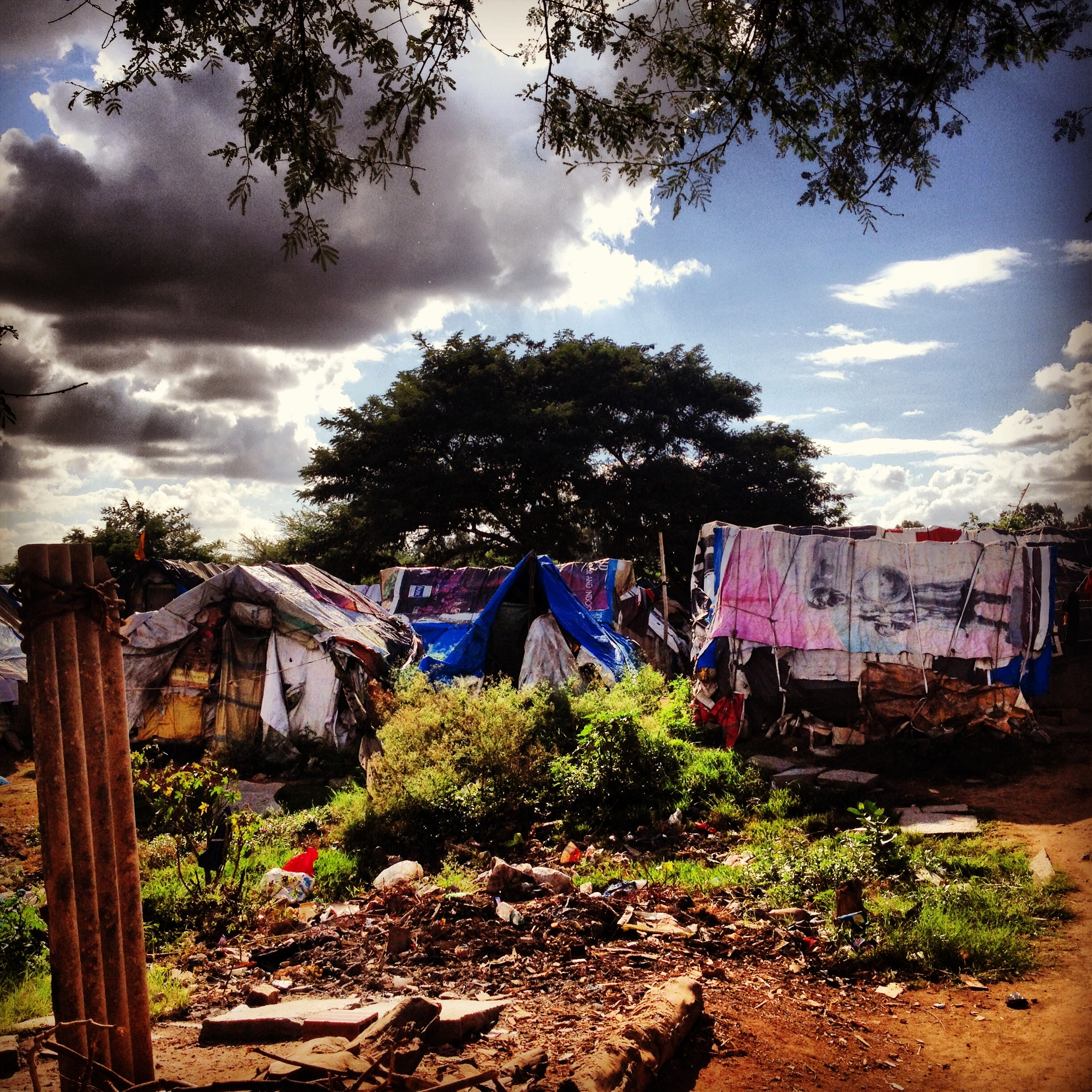 Lingarajpuram